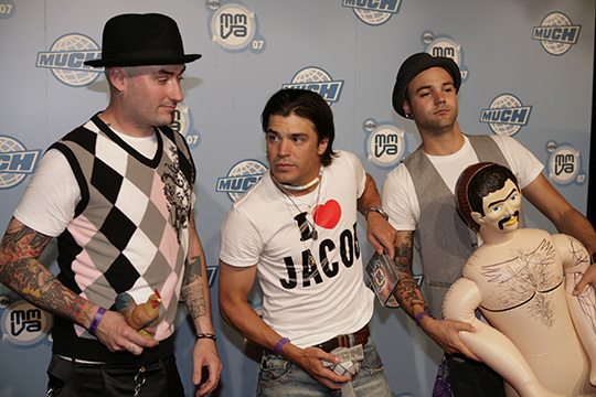 Tommy Mac, Chris Crippin and Dave Rosin of Hedley were attendees at the 2007 MuchMusic Video Awards, held the night of Sunday, June 17, 2007 in Toronto, Ontario, Canada.